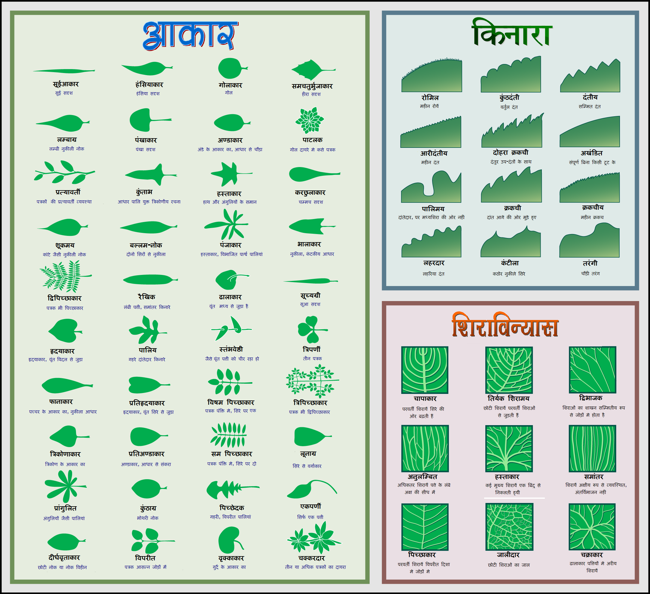 Chart of leaf morphology characteristics. Hindi text.